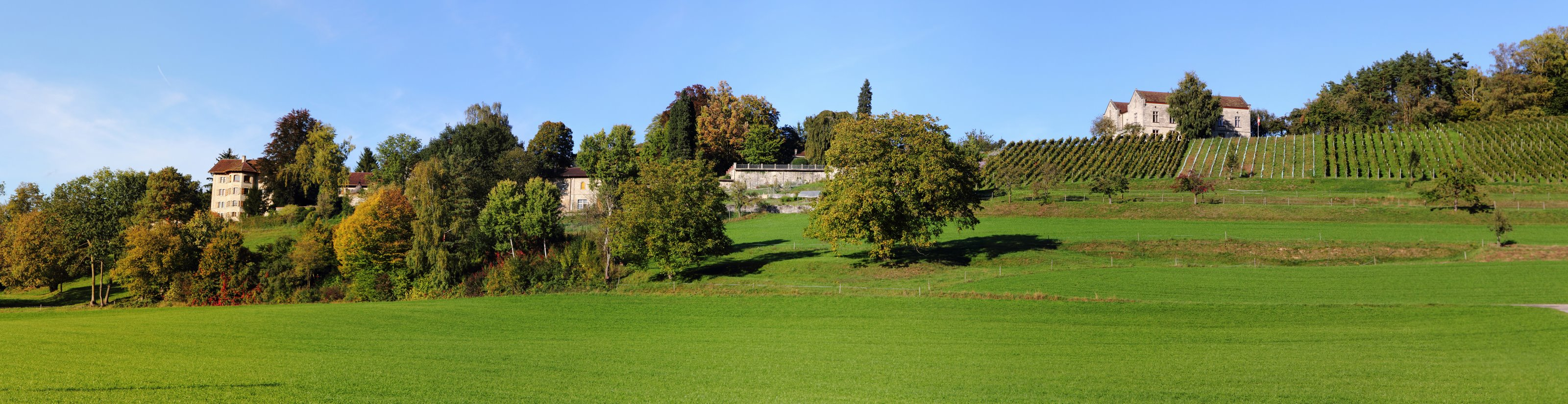 View from the Old and the New Castles